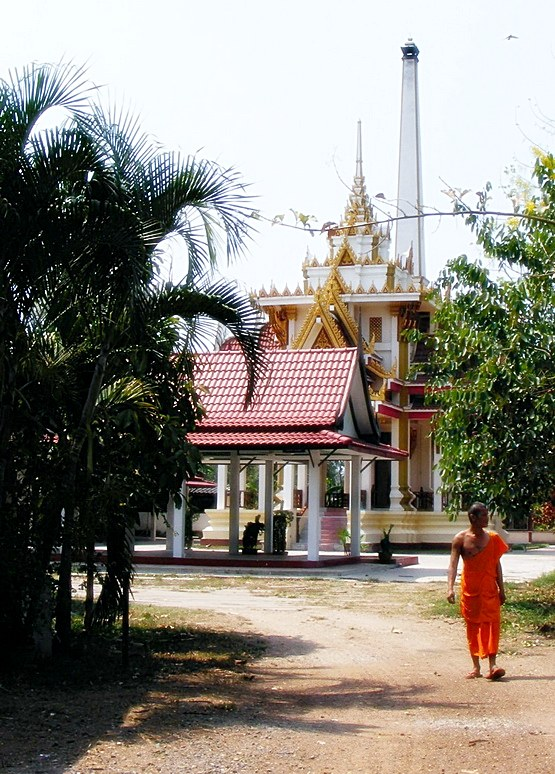 Crematorium of Wat Khung Taphao Mueang Uttaradit, Uttaradit Province, Thailand.